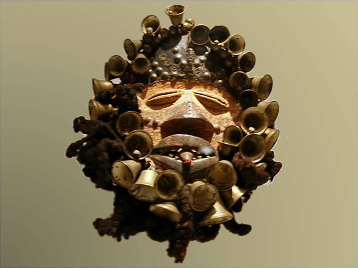 Mask, Wee peoples, Côte d'Ivoire, Late 19th to mid-20th century, Wood, pigment, brass tacks, bells, metal, cloth, hair, teeth The relatively calm-albeit, exuberantly decorated-life-size face, the slightly parted lips and the slit eyes fit the local definition of a female mask. The mask's performance style, whether a comic performer asking for money and gifts, a singer or praise attendant, is nonthreatening and its character is defined by its headdress, body covering, dance pattern and accompanying percussion instruments and attendants. The lines of tacks on the cheeks and forehead are indicative of old styles of scarification or the face paint still worn by women for ceremonial occasions. Most examples have a stained black surface that differs from the natural aged wood of this piece. (National Museum of African Art)